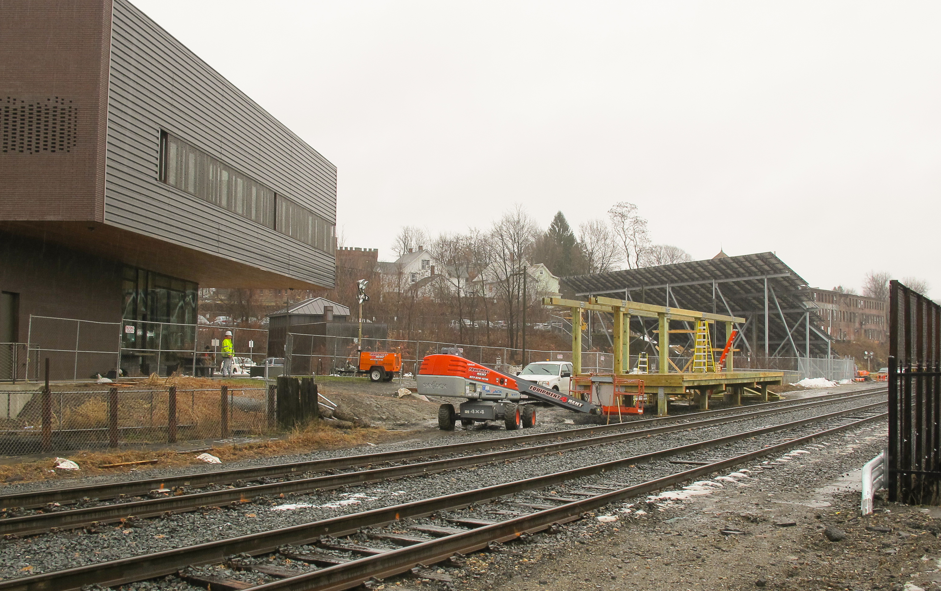 A view of the site where a temporary passenger rail platform is being constructed behind the John W. Olver Transit Center in Greenfield, Massachusetts.